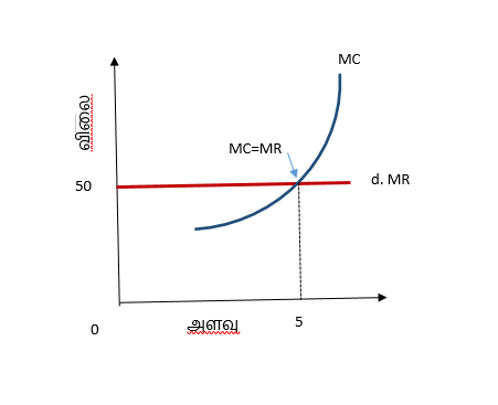 Short run equilibrium in Perfect competition